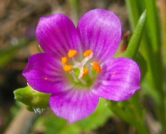 [Calandrinia ciliata — Fringed redmaids. Taken at Stunt Ranch — in the Santa Monica Mountains National Recreation Area, Southern California. NPS photo, no copyright.